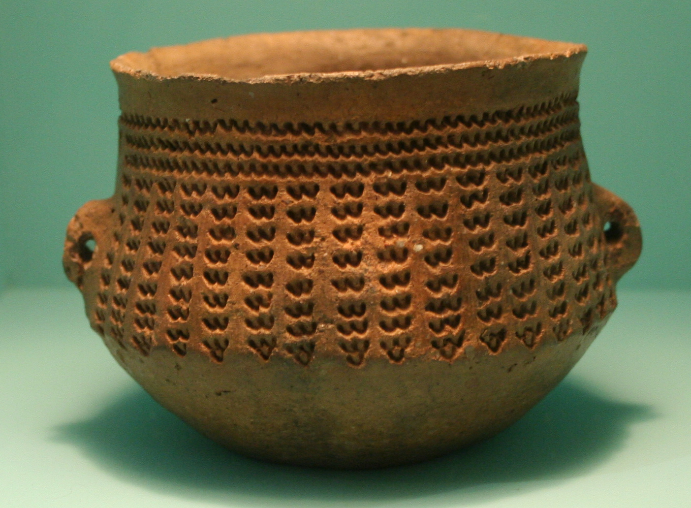 Museum für Vor- und Frühgeschichte (Museum of prehistory and early history), Berlin